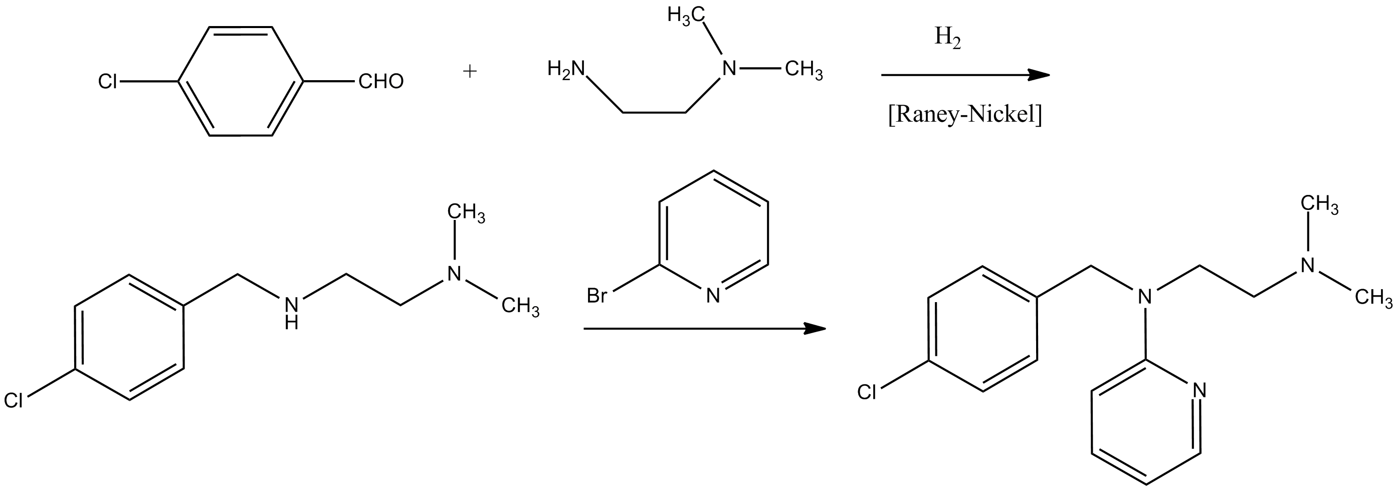 A synthetic route for the production of chloropyramine is disclosed.